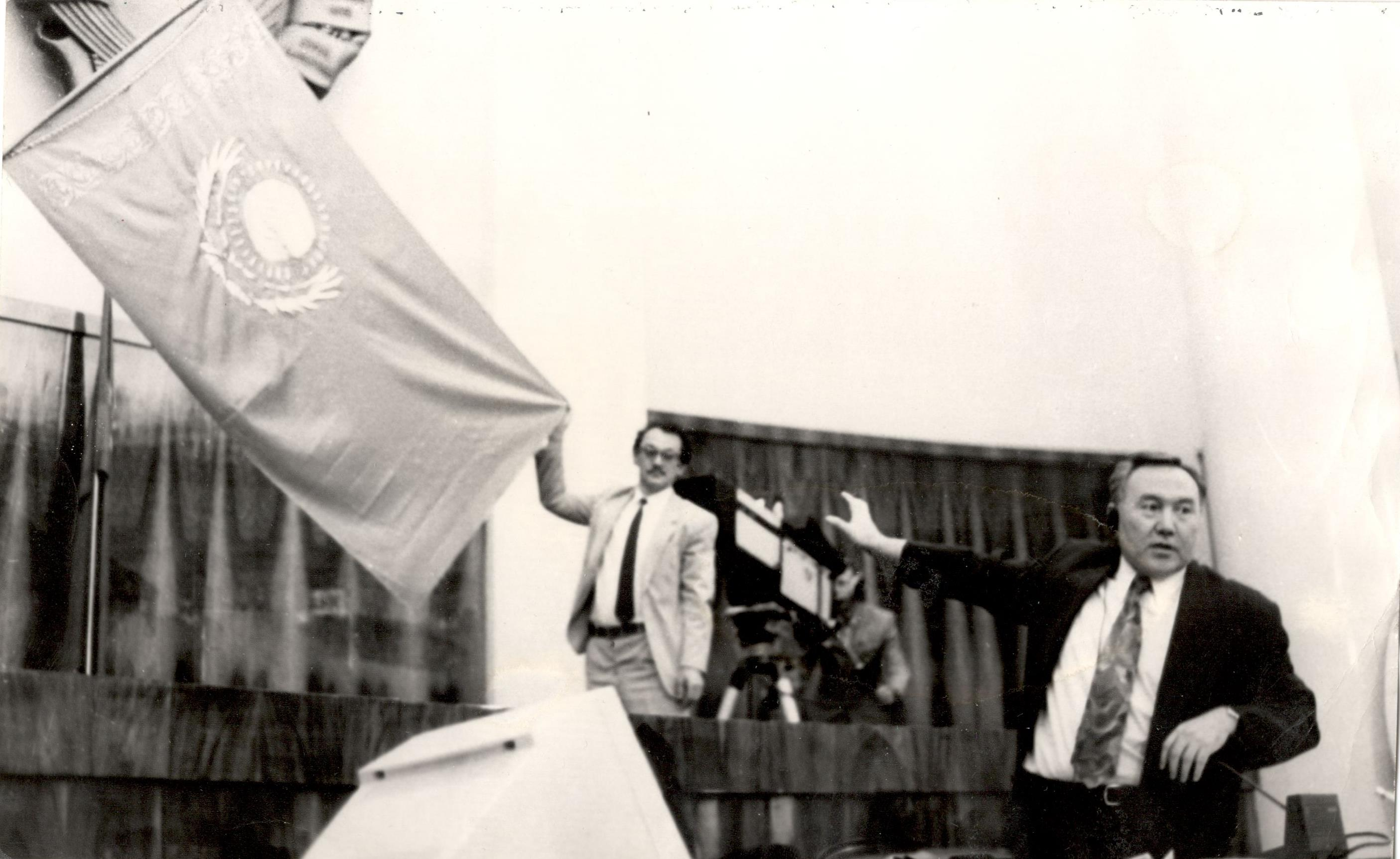 Nazarbayev is presenting the prototype the flag to the Supreme Council members.